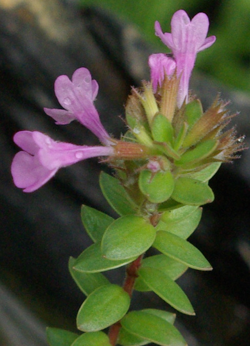 detail from leaves and flowers of Micromeria Glomerata